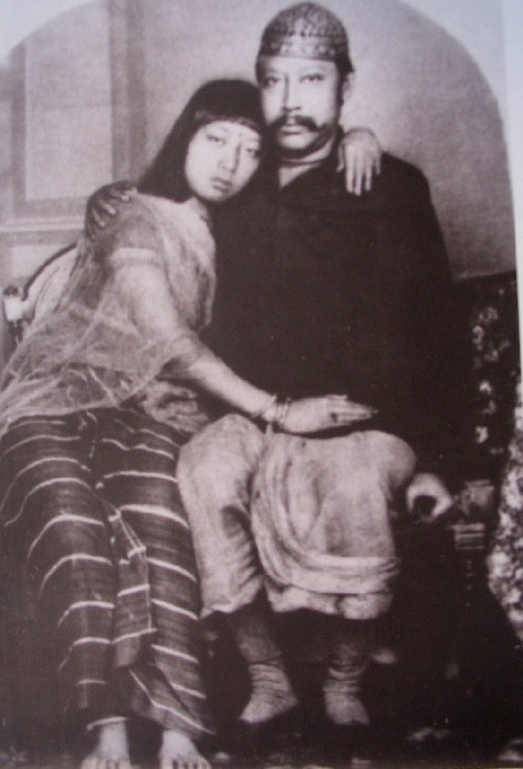 Photo of Maharaja Birchandra,King of Tripura with his queen Maharani Manamohini taken by the king himself